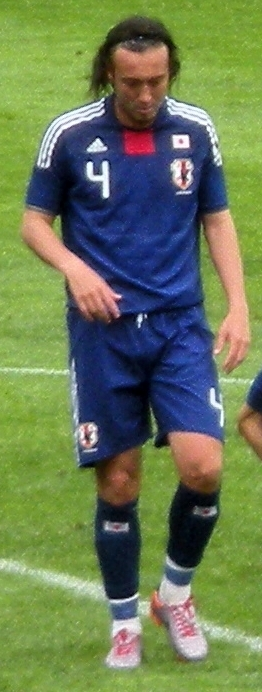 Marcus Tulio Tanaka, friendly between Japan and England in Graz (Austria) on 30 May 2010